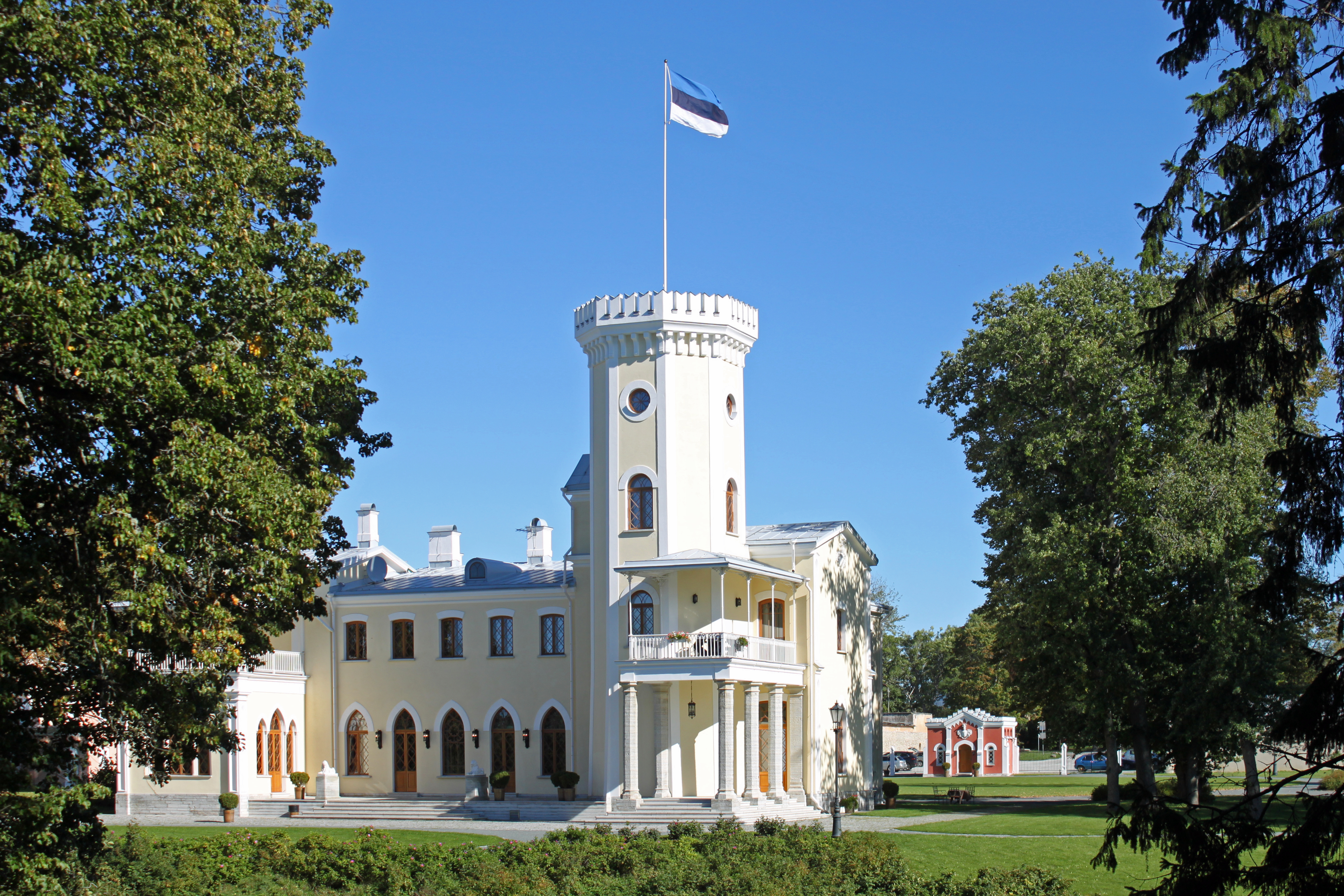 Keila-Joa Manor, year 2018